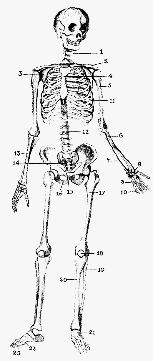 Human skeleton